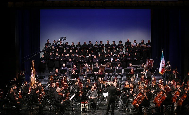 Tehran Symphony Orchestra, performing "Symphony of Victory" conducted by Shahrdad Rouhani; Location: Roudaki hall